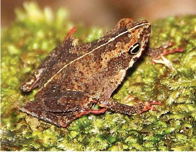 Cropped from File:Amazophrynella diversity.jpg